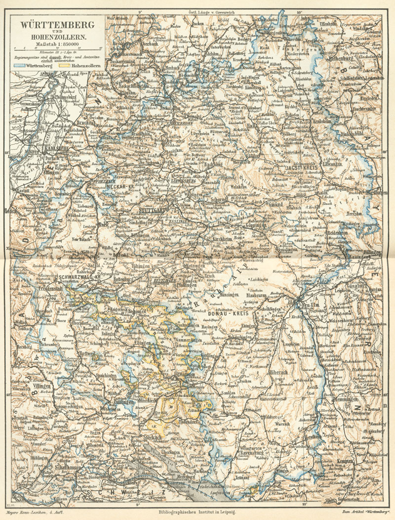 This is page 772 of 1026, in Volume 16 of the German illustrated encyclopedia Meyers Konversationslexikon, 4th edition (1885-1890), fraktur font.